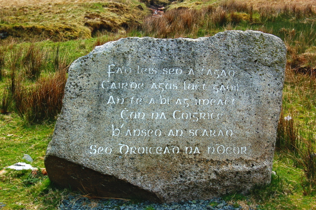 Road from Falcarragh SE to R251 - Stone monument This monument is located at the NW end of the Bridge of Tears. The engraved message is in Gaelic.